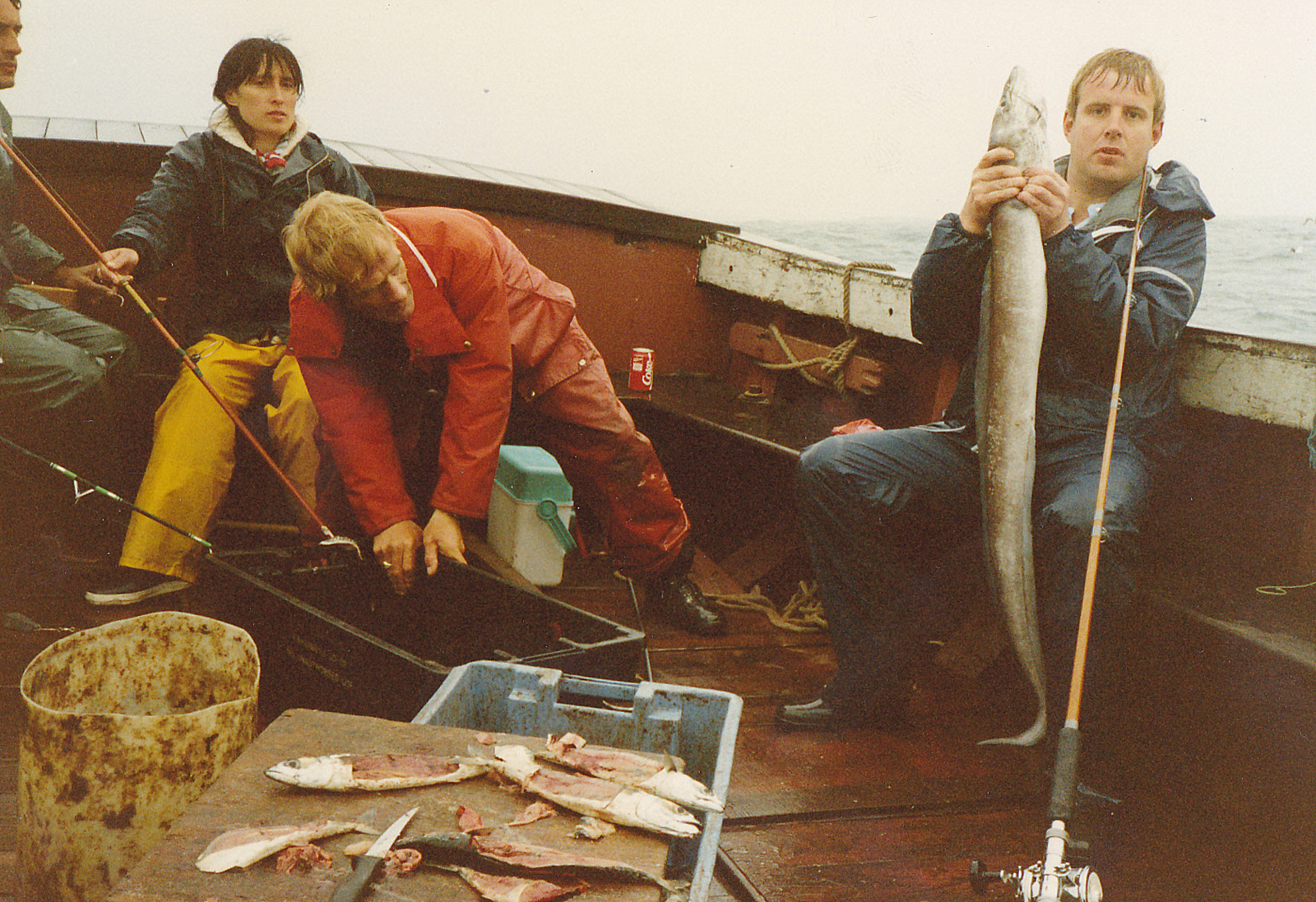 Large conger caught in Ireland